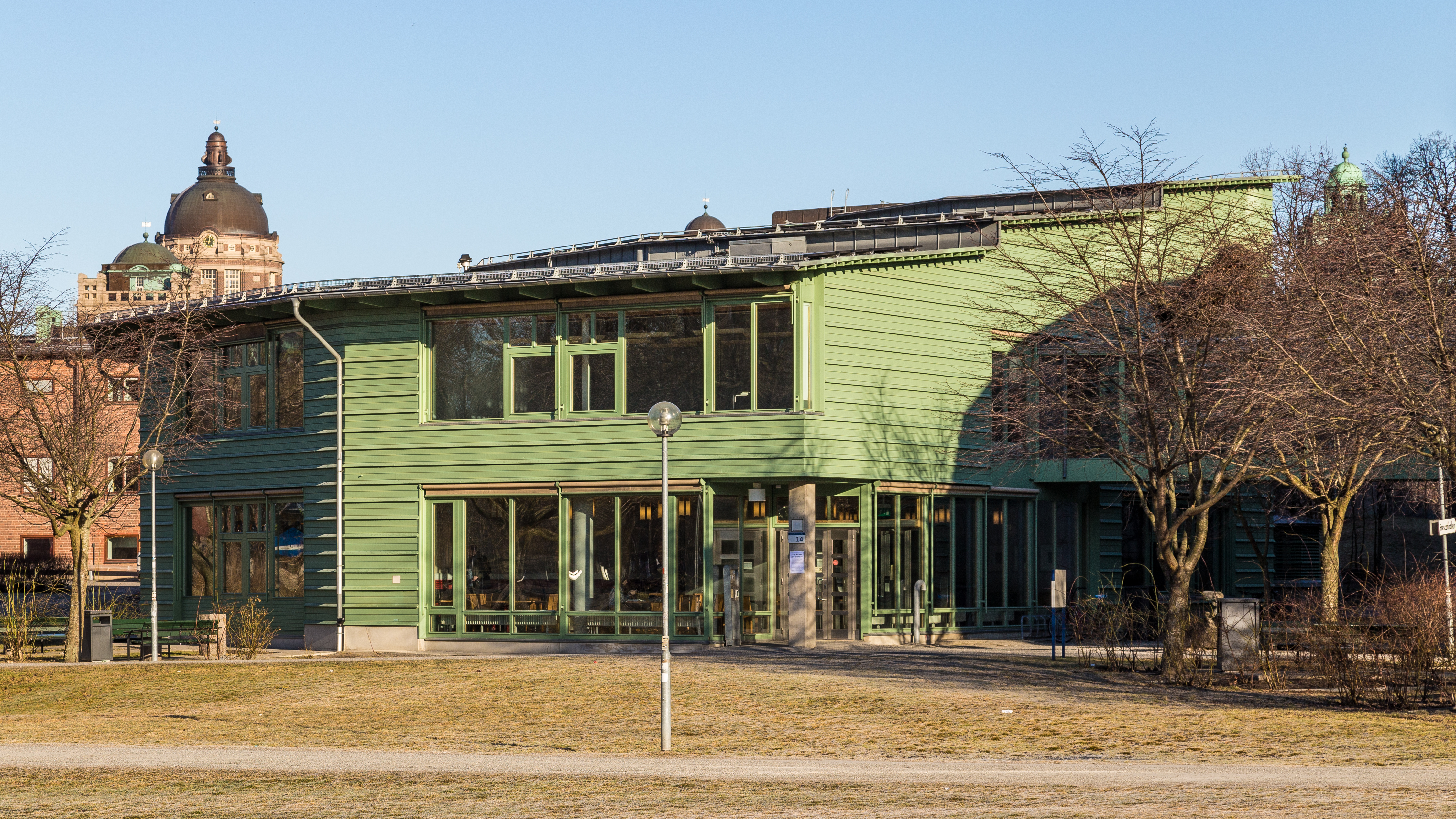 House of Geosciences, Stockholm University, Sweden. Building Y, mainly auditoriums and class rooms for cultural geography.